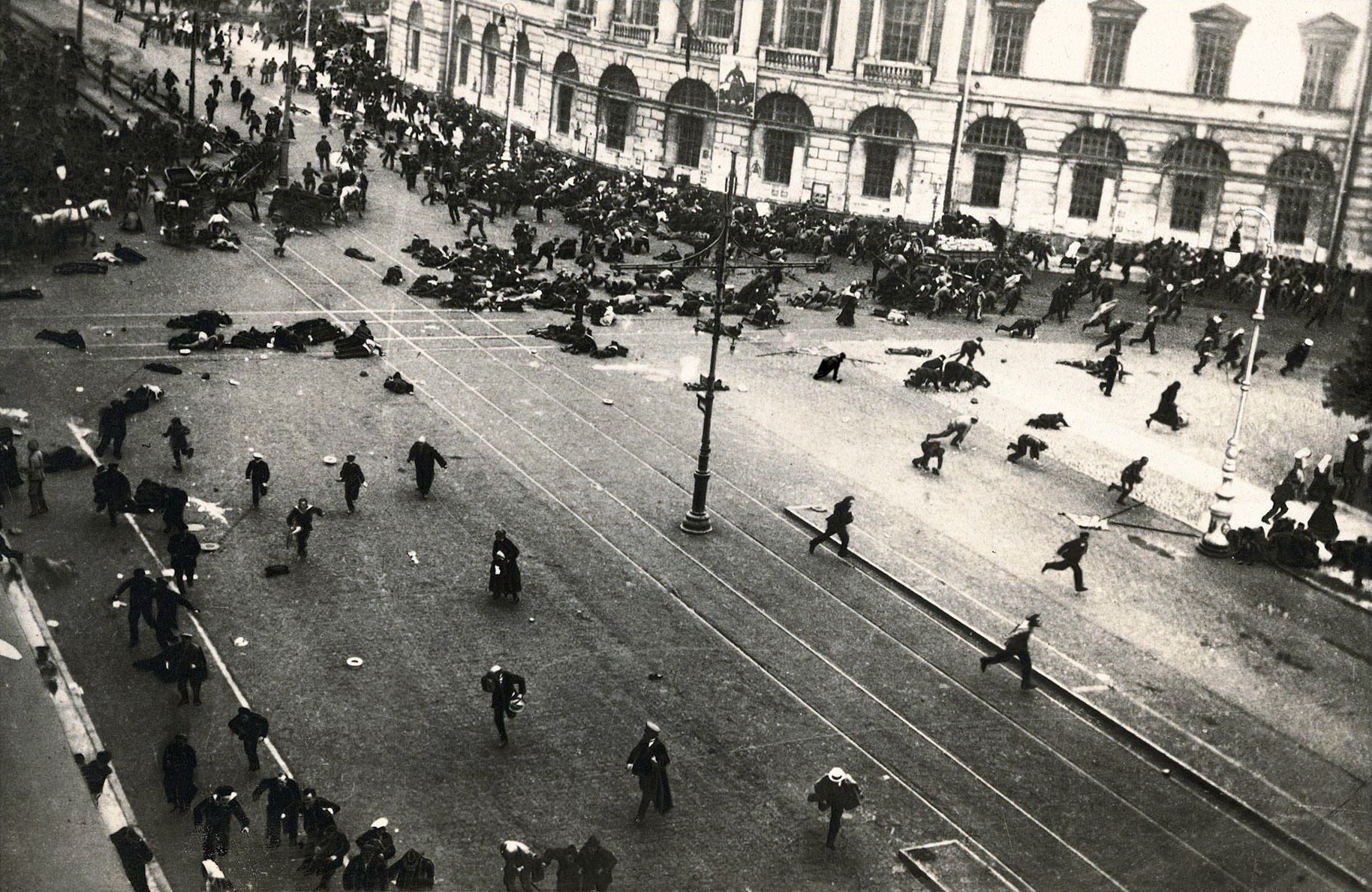 Petrograd (Saint Petersburg), July 4, 1917 2PM. Street demonstration on Nevsky Prospekt just after troops of the Provisional Government have opened fire with machine guns.